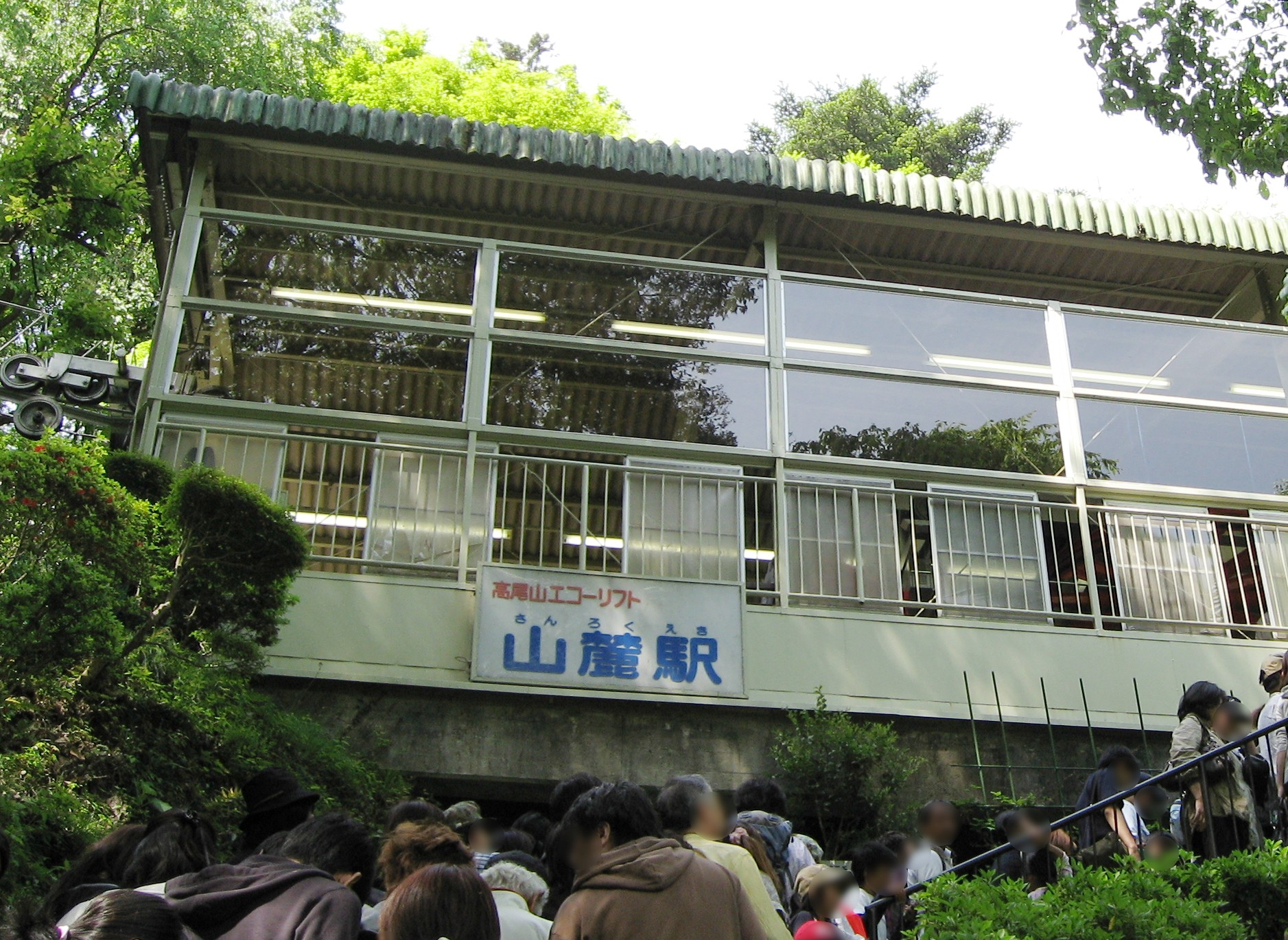 Sanroku Station of Chairlift of Takao Mountain Railroad, Hachioji, Tokyo, Japan.